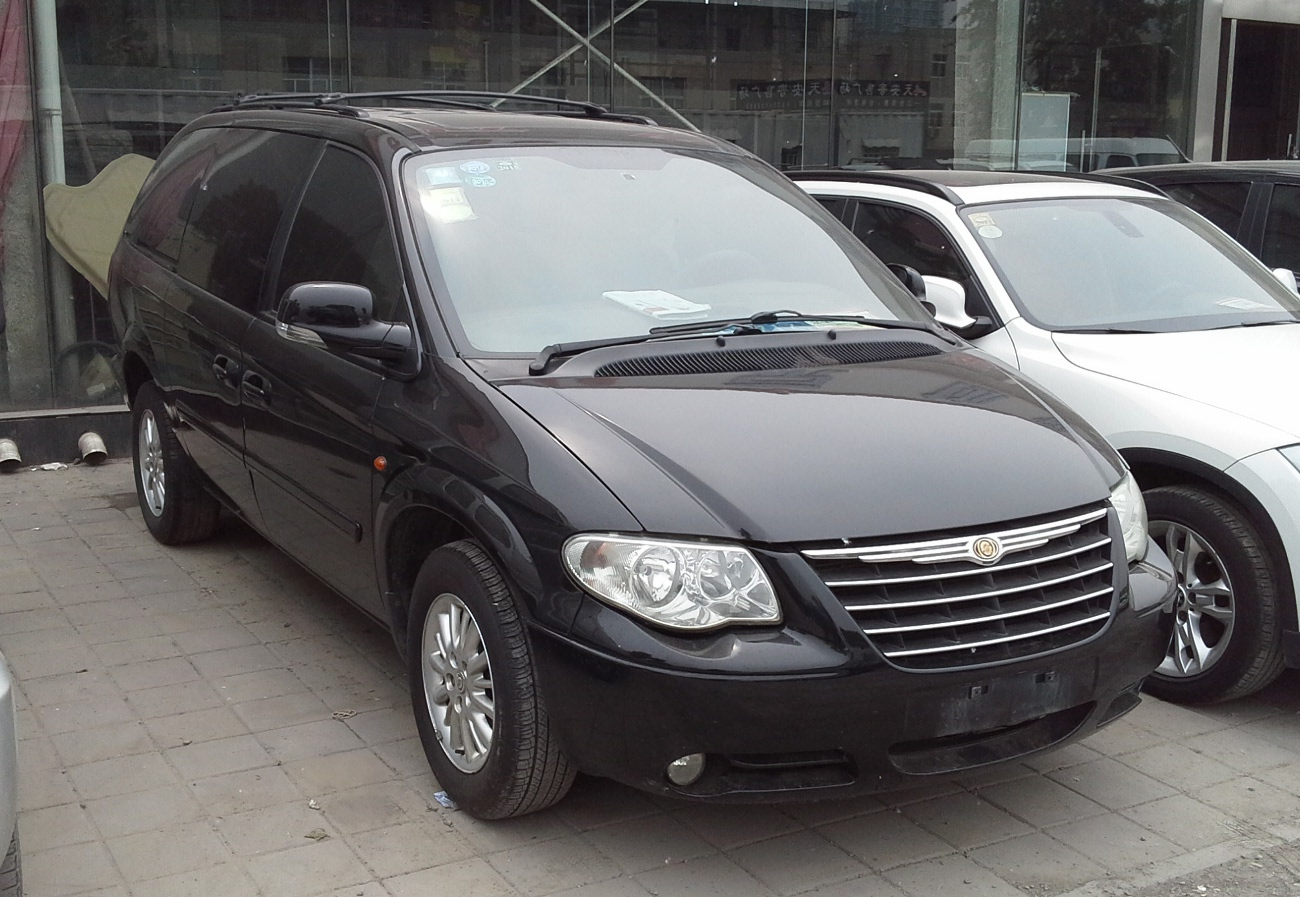 Chrysler Grand Voyager RS facelift photographed at the Beijing Used Car Trade Market, Beijing, China.